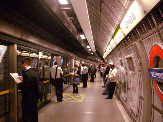 Just before the rush on the Jubilee line at Westminster Surprisingly quiet at five minutes to five on a Tuesday afternoon. The yellow boxes on the platform are a suggestion to commuters not to stand in front of the train doors so that passengers can get off before they get on. This would work really well apart from the witless idiots who think that's where you are supposed stand (because that's where the doors are?)